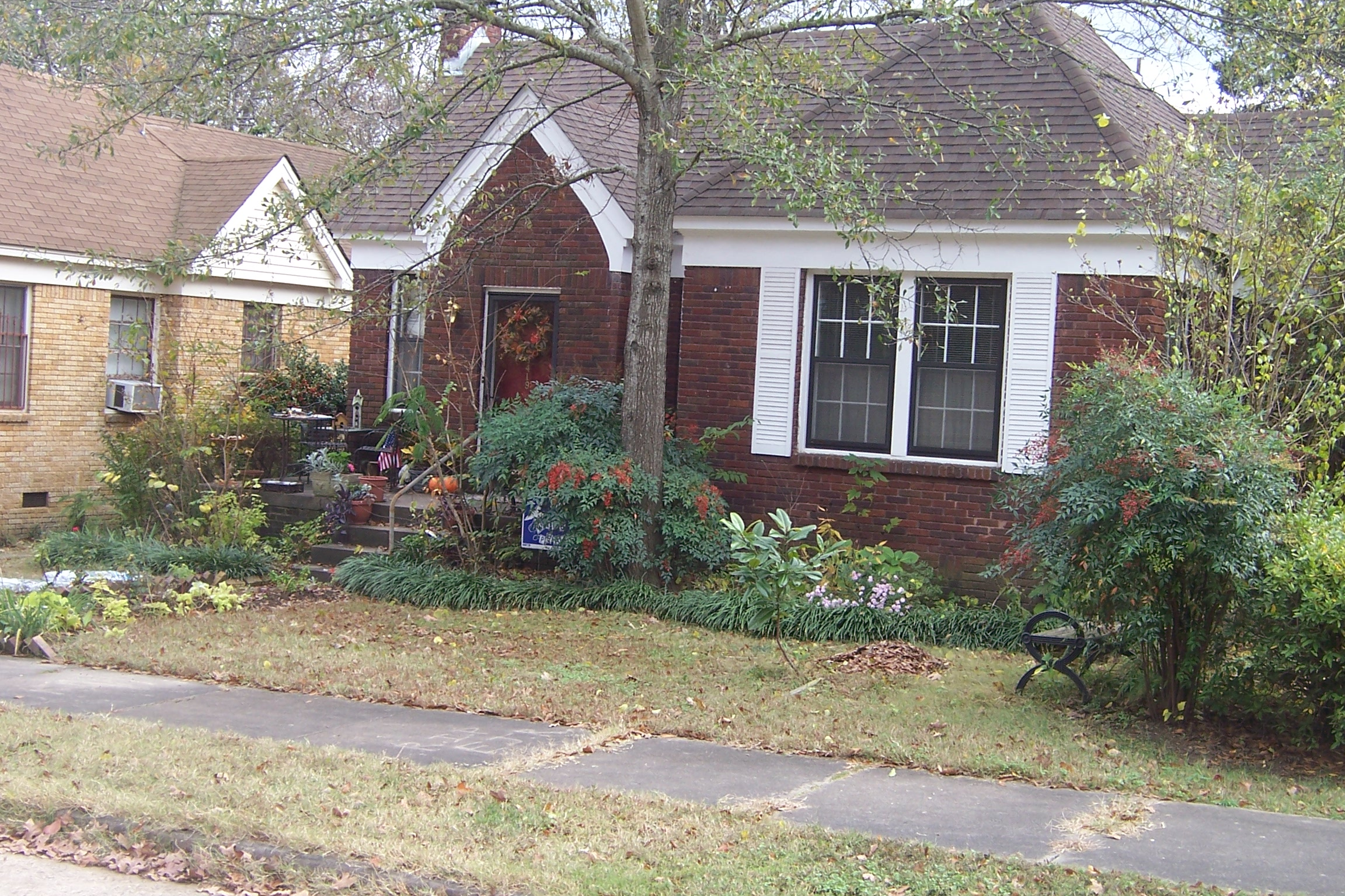 The 980-sq ft, one-story house in the Hillcrest neighborhood of Little Rock where Hillary Rodham and Bill Clinton lived from 1977–1979 while he was Arkansas Attorney General.